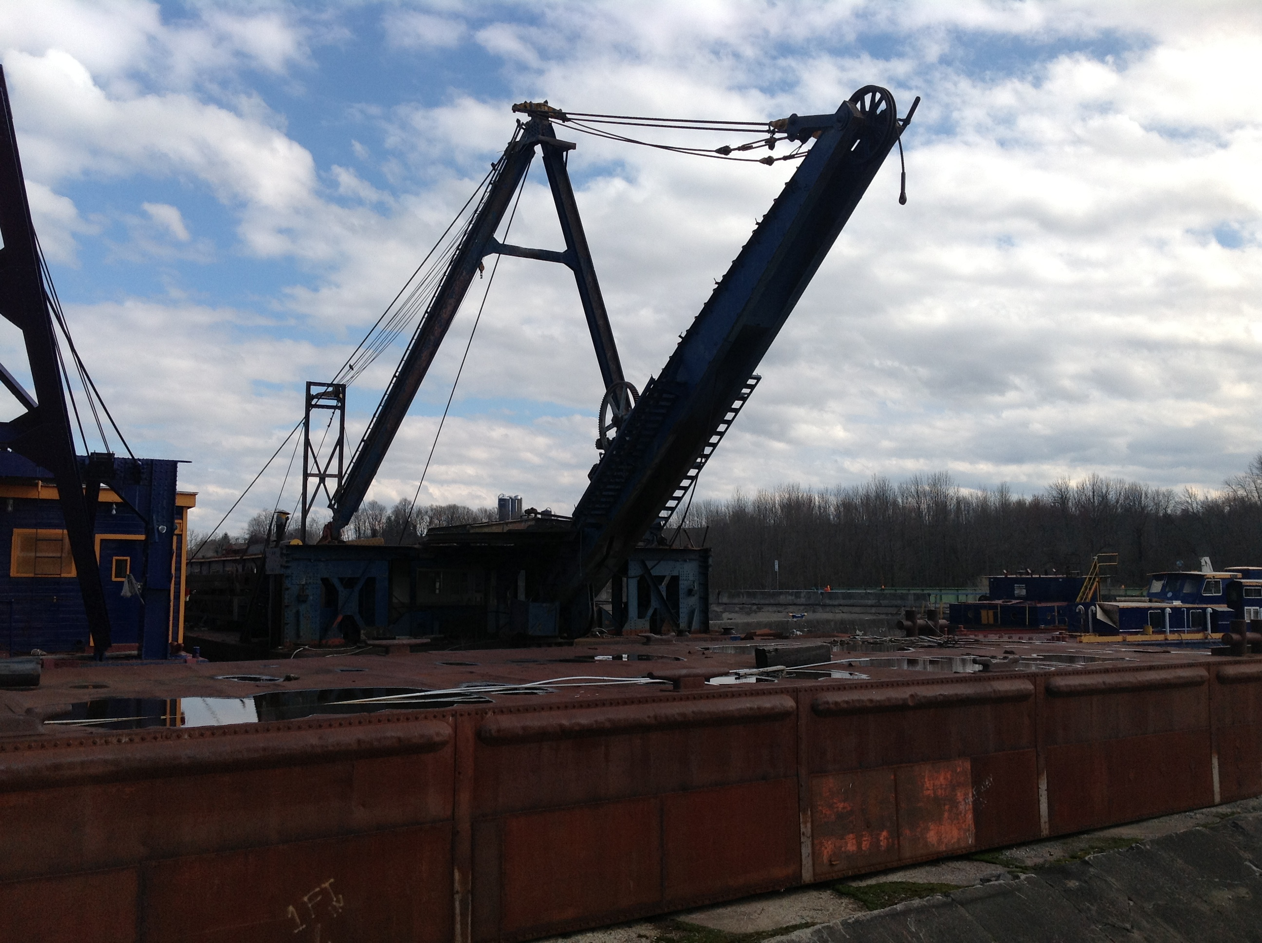 Dipper Dredge #3 was used to build the Erie Canal